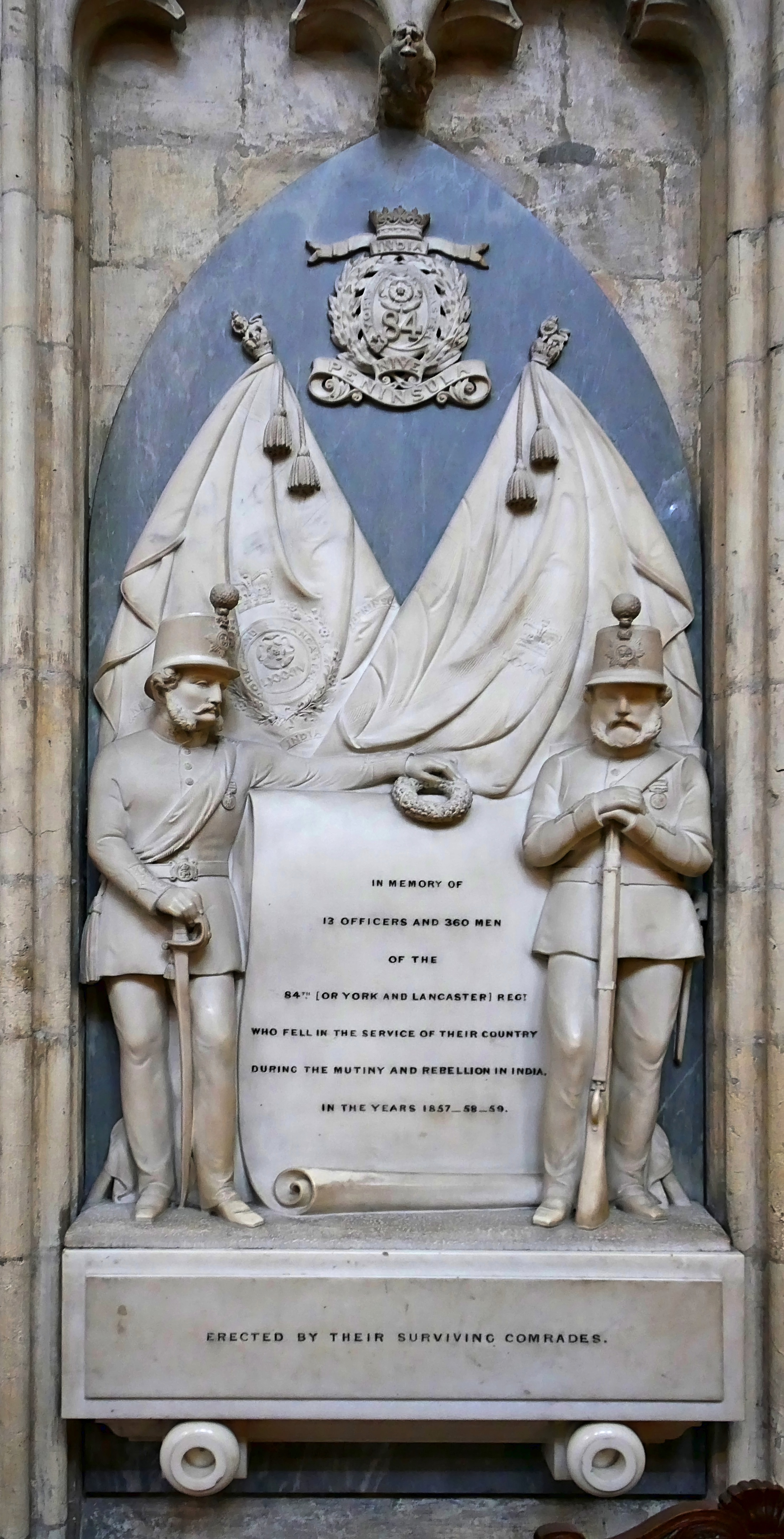 York Cathedral: memorial of 13 officers and 360 men of the york and lancaster reg. who fell in service of their country during the mutiny and rebellion in india 1857-59